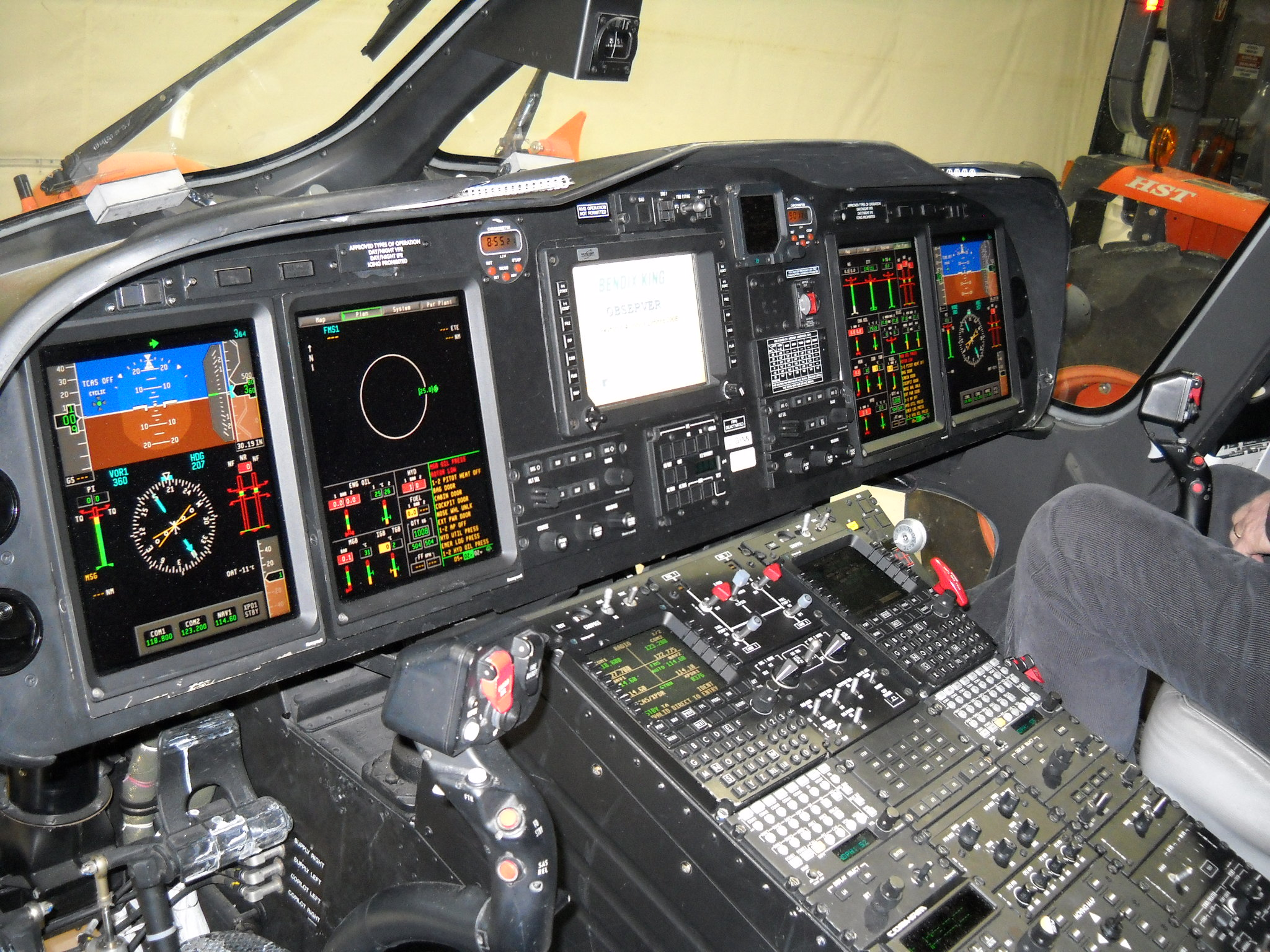 AgustaWestland AW139 instrument panel powered up. The aircraft belongs to Ornge Air Ambulance and is based at Ottawa, Ontario, Canada